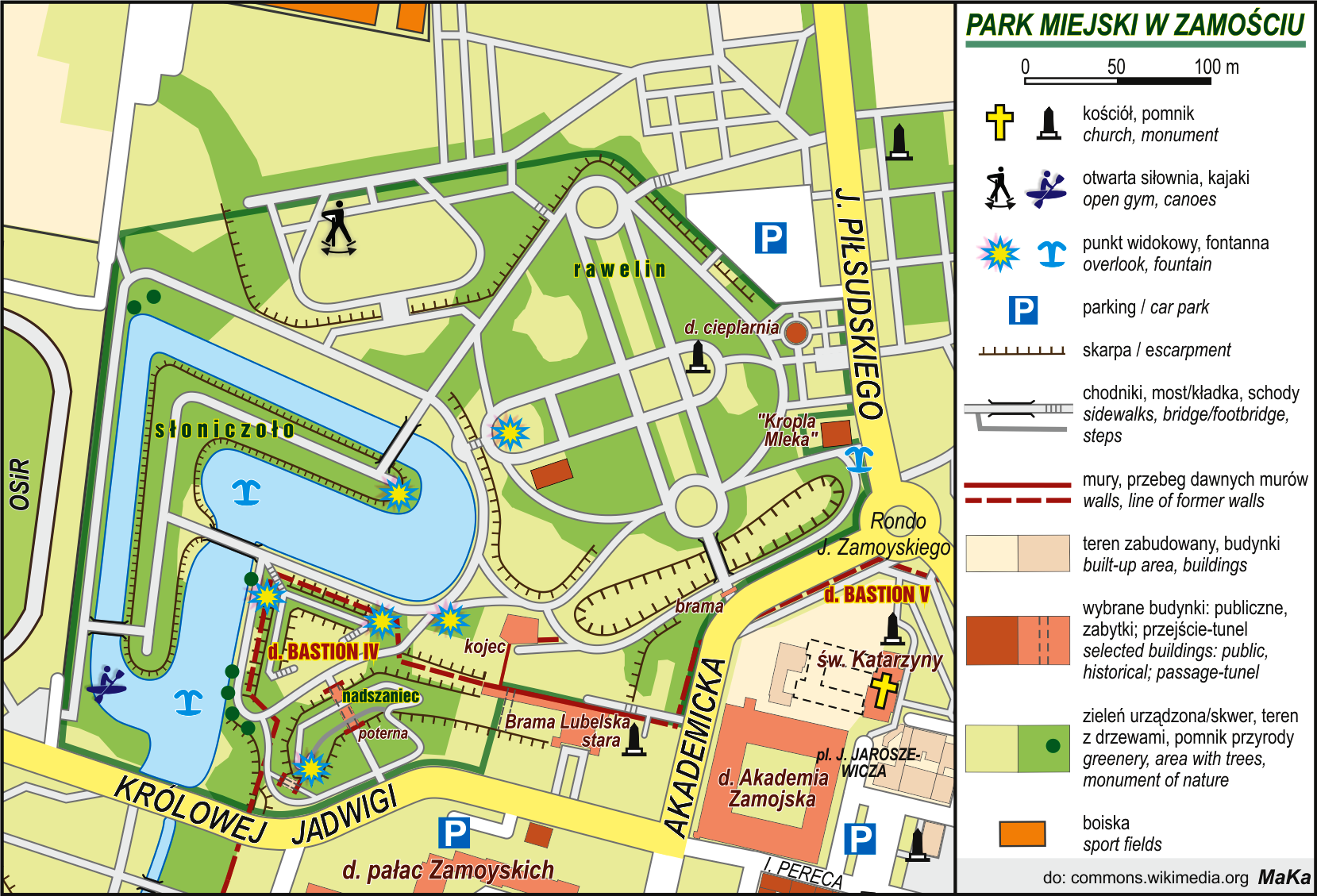 Plan of Town Park in Zamość (Poland)